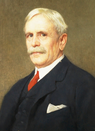 William Rutherford Mead by William Henry Lippincott